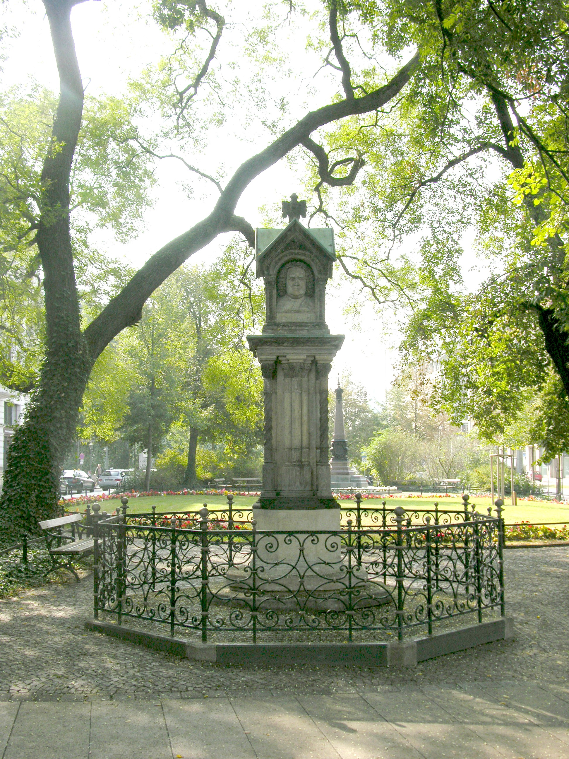 Old Johann Sebastian Bach monument in Leipzig from north.